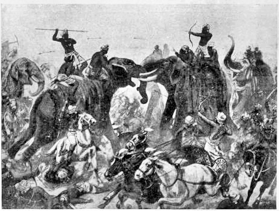 The defeat of Pulikesin II, the Chalukhya, byMahamalla Pallava at Badami. From Credit: The defeat of Pulikeshi II, the Chalukhya, byMahamalla Pallava at Badami, 642 A.D., illustration from 'Hutchinsons History of the Nations', c.1910 (litho), Dudley, Ambrose (fl. 1920s) / Private Collection / The Stapleton Collection / The Bridgeman Art Library STC 357950 Image number: The defeat of Pulikeshi II, the Chalukhya, byMahamalla Pallava at Badami, 642 A.D., illustration from 'Hutchinsons History of the Nations', c.1910 (litho) Title: Dudley, Ambrose (fl. 1920s) Primary creator: British Nationality: Private Collection Location: The Stapleton Collection Credit: lithograph Medium: In the second century a Western Asian tribe, the Pallavas established itself as the ruling race in the East and South of India; The Chalukhyan king Pulikeshi II (609-642) inflicted many defeats on them but Narasimhavarman, or Mahamalla Pallava (ruled 630-668), an important ruler, overthrew him in 642, and for a short time the Pallavas were supreme in the Chalukhyan dominions; Description: 20th (C20th) Date: Asia Historical Events BC - 1499 Categories: Horizontal Orientation